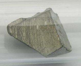 Lanthanum in a glass tube